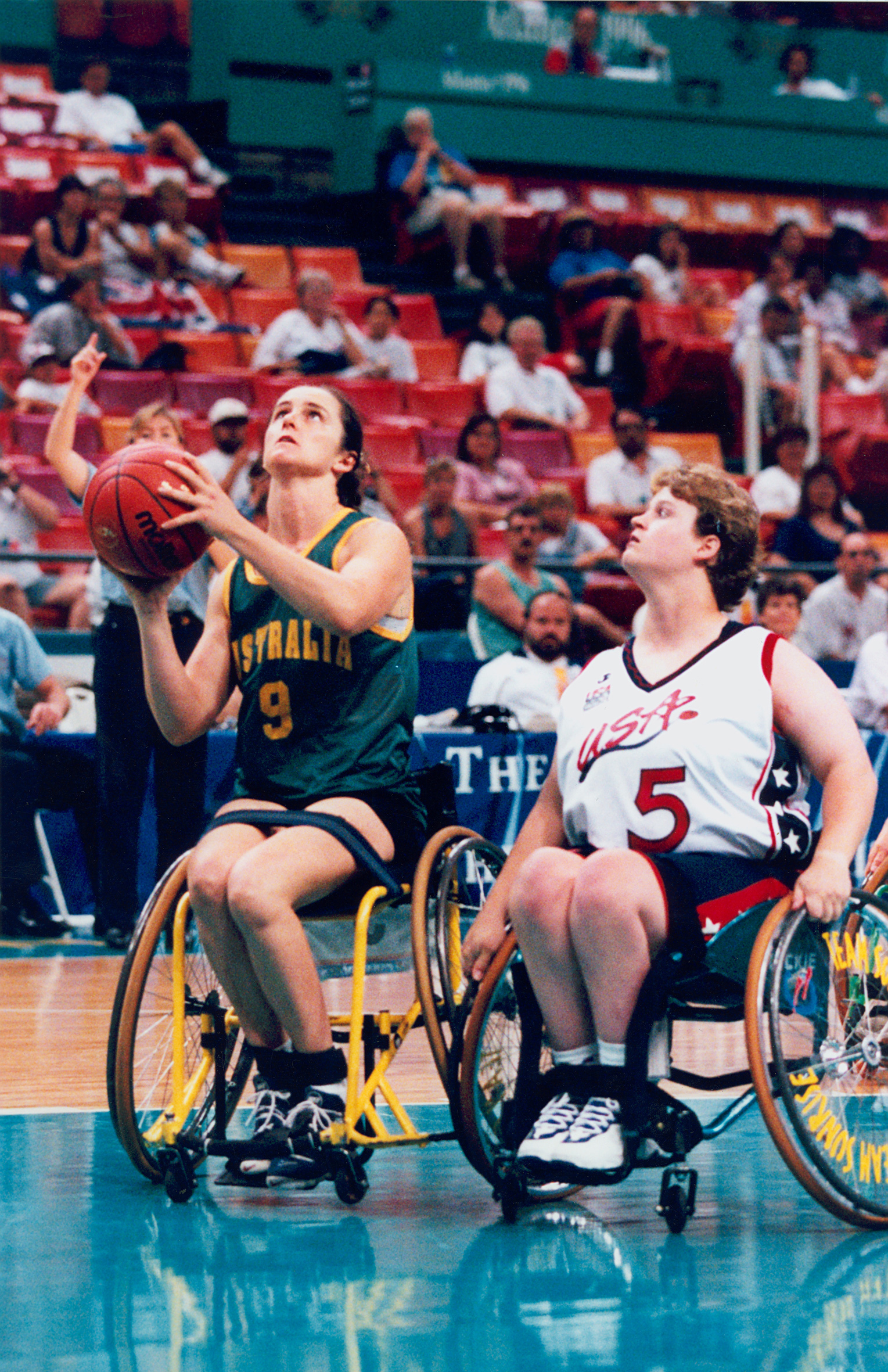 Australian women's wheelchair basketballer Liesl Tesch shoots from inside the key in the game against USA at the 1996 Atlanta Paralympic Games